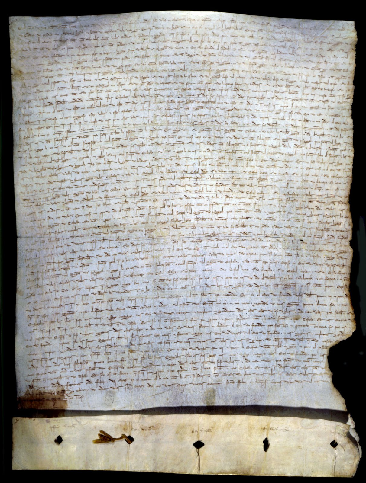 The manuscript of the Treaty of Alcañices (1297), kept in the Portuguese Archives.